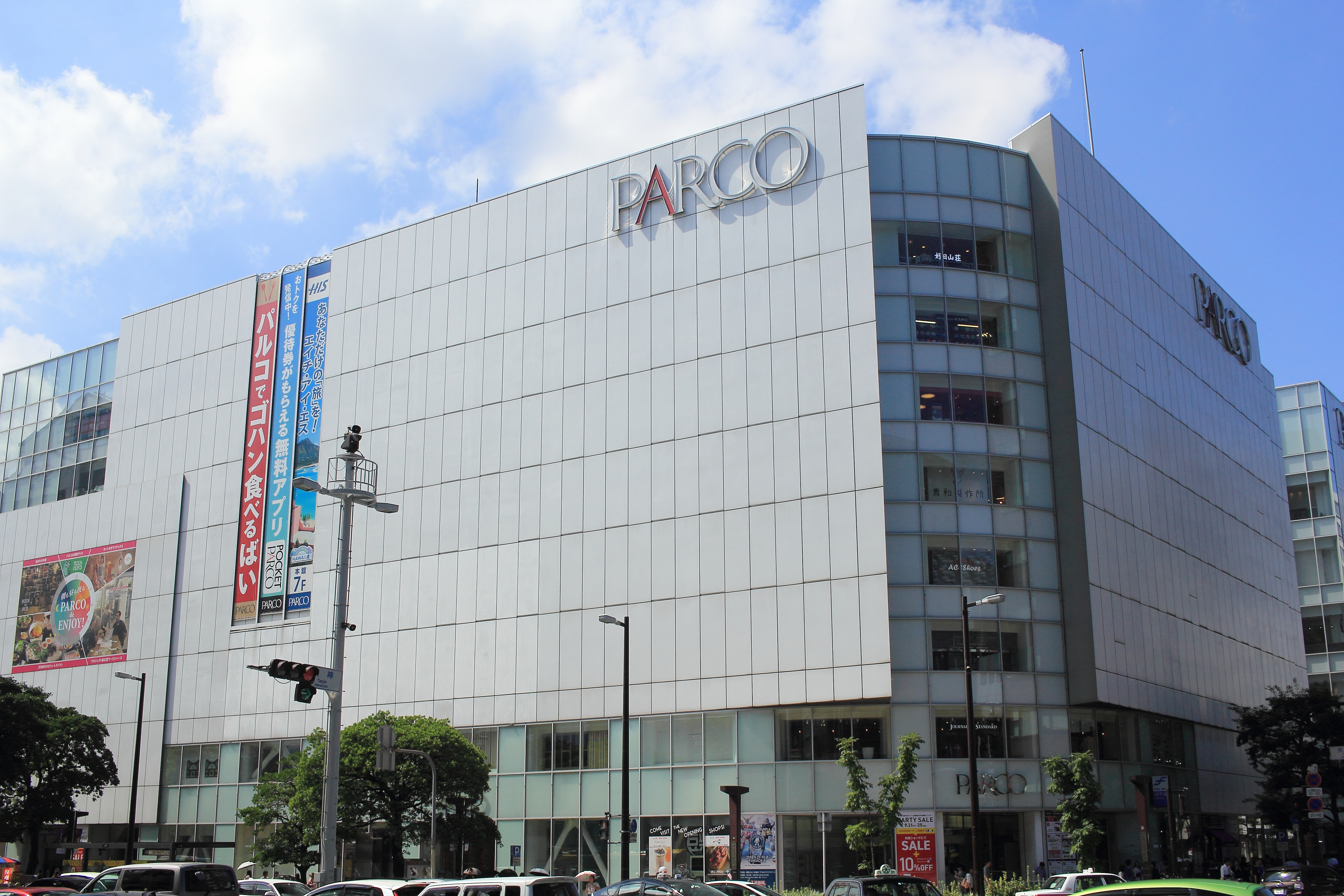 Fukuoka-PARCO Canon EOS 60D